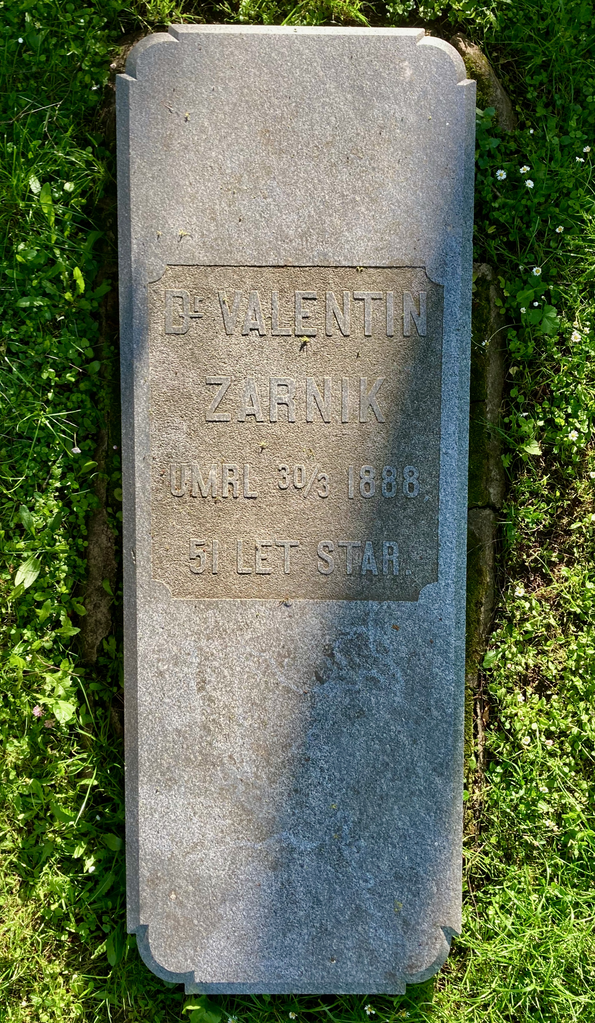 Tombstone of Valentin Zarnik, Slovenian lawyer, politician and author, at Navje in Ljubljana